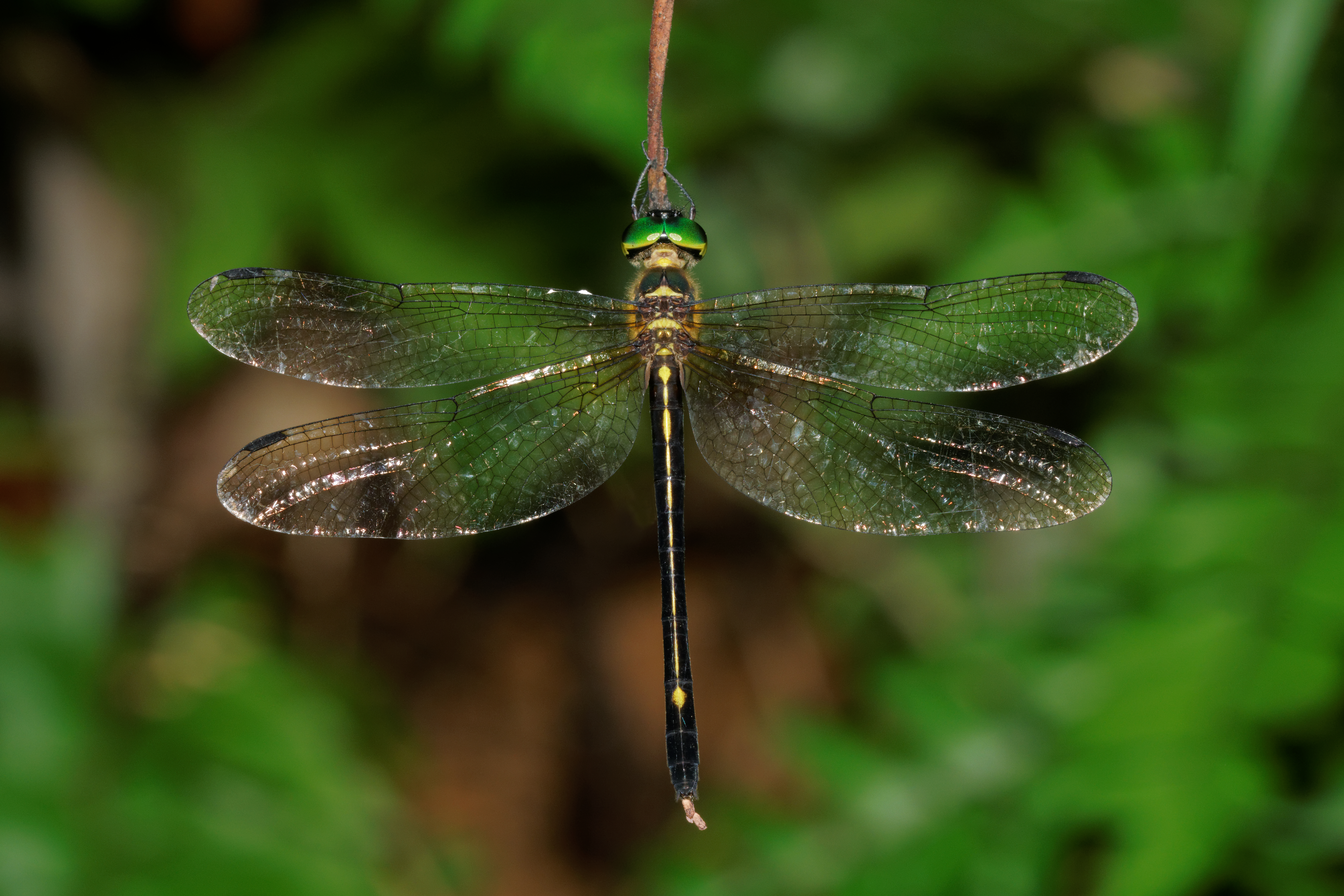 Macromidia donaldi is a species of dragonfly in Corduliidae family. The species is known only from a few localities in Kerala, Karnataka, and Goa districts. The localities are relatively undisturbed and still retain natural forest cover. The species is very cryptic and crepuscular in habits.